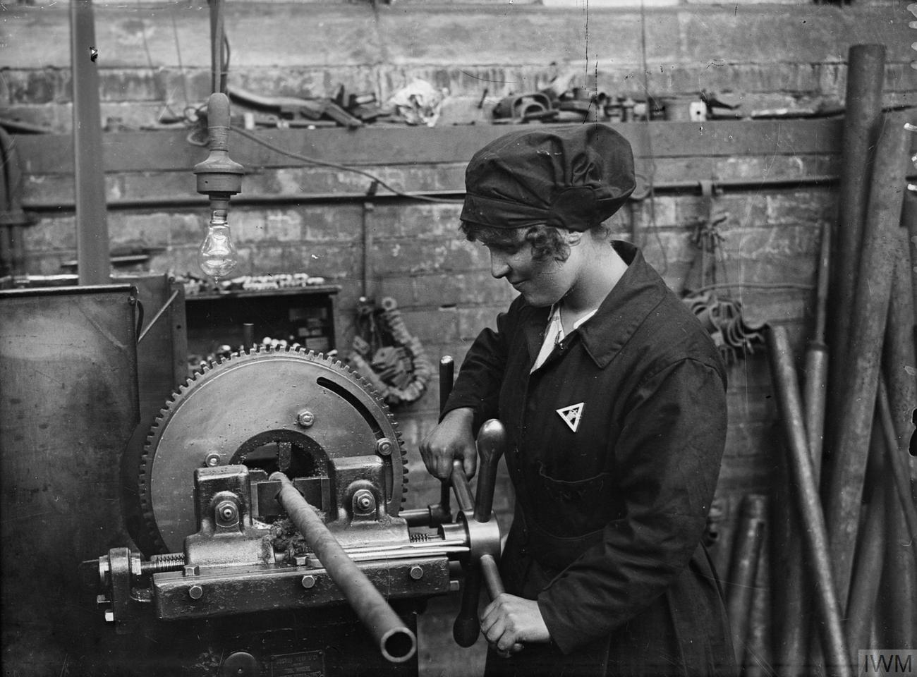 Shipbuilding during the First World War A female worker operating machinery at the shipbuilding yard of Armstrong Whitworth and Company at Elswick, Newcastle upon Tyne, during the First World War.